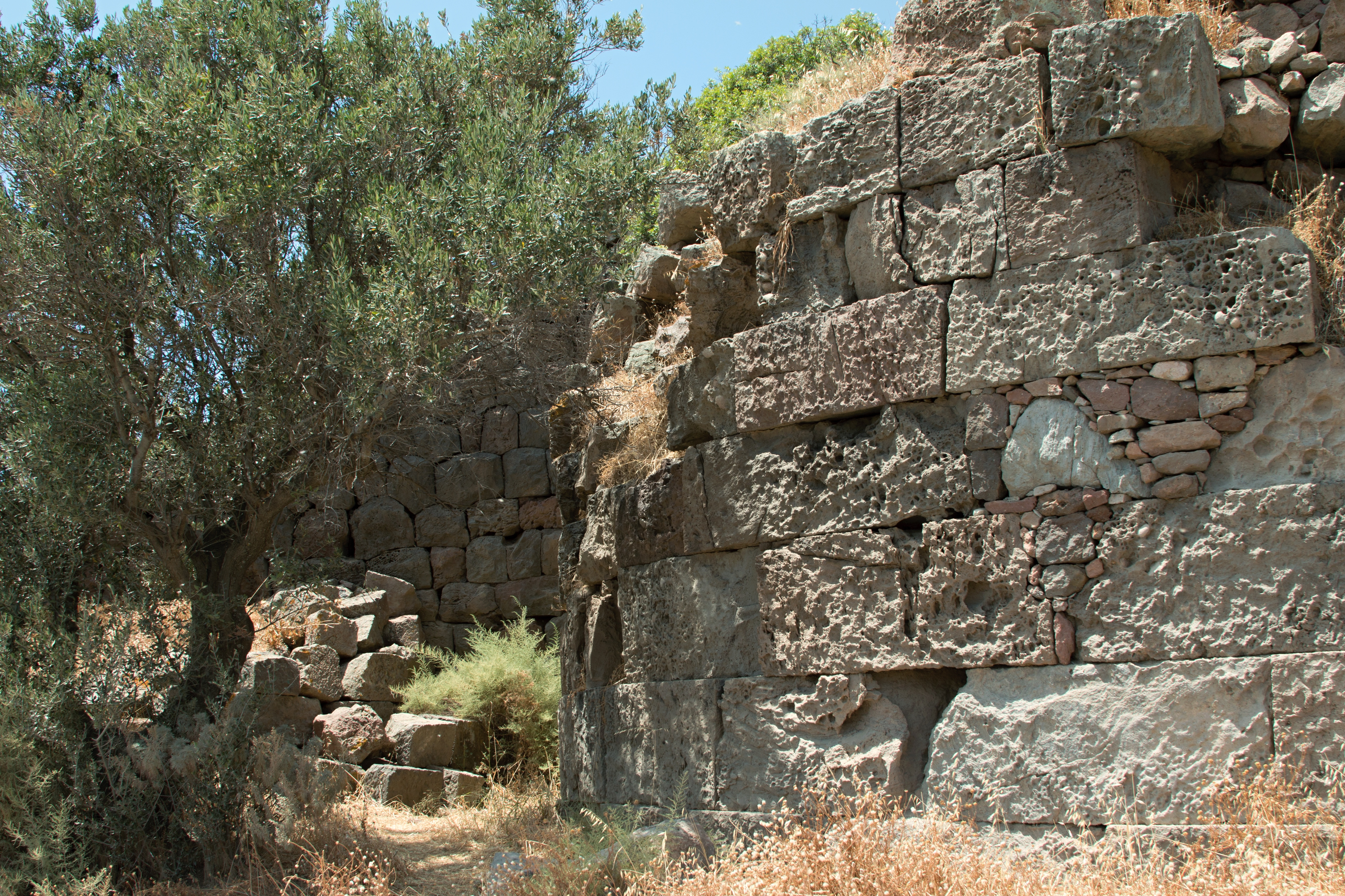 A part of the walls, at the Eastern gate of the fortifications. Remains of the city gate of Roman times. Milos, Cyclades.